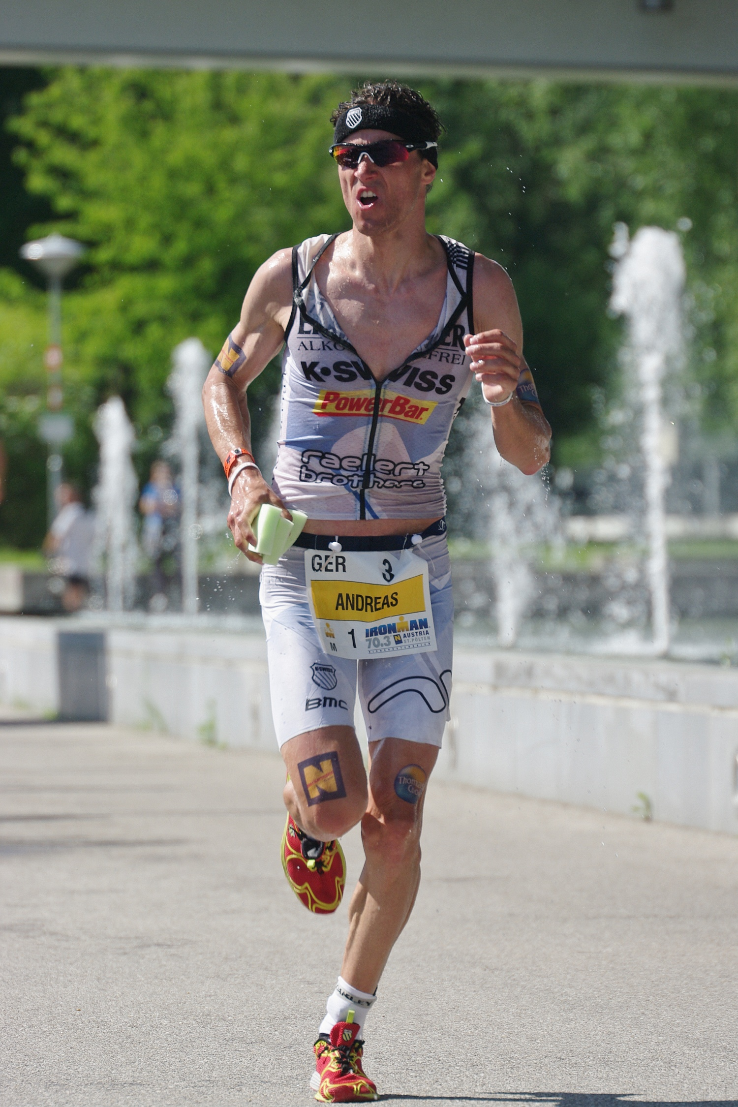 German triathlete Andreas Raelert in the Ironman 70.3 Austria on 20 May 2012 in St. Pölten.